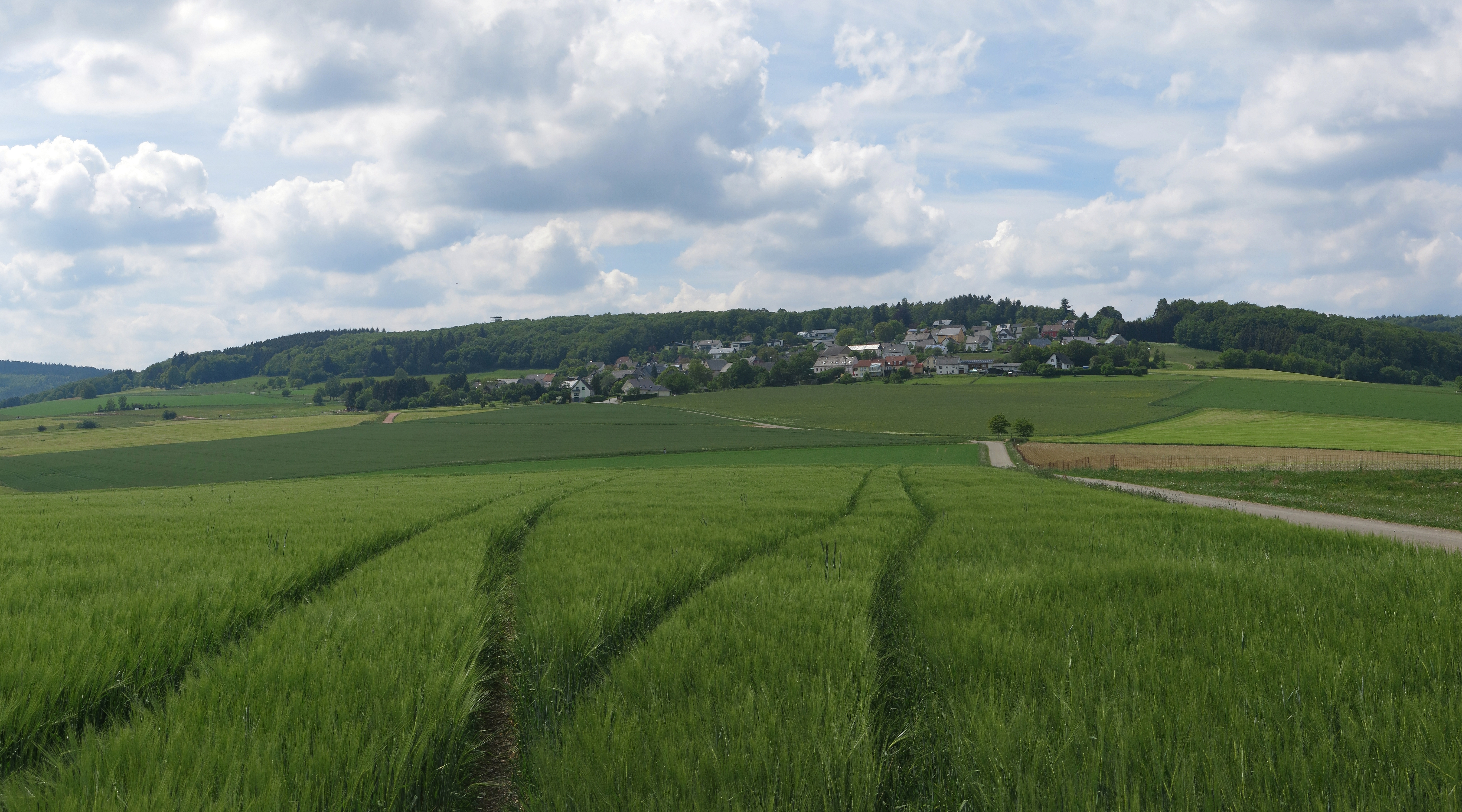 Hattgenstein in the Hunsrück